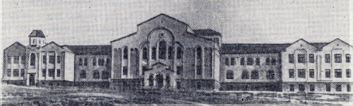 Nersisyan School